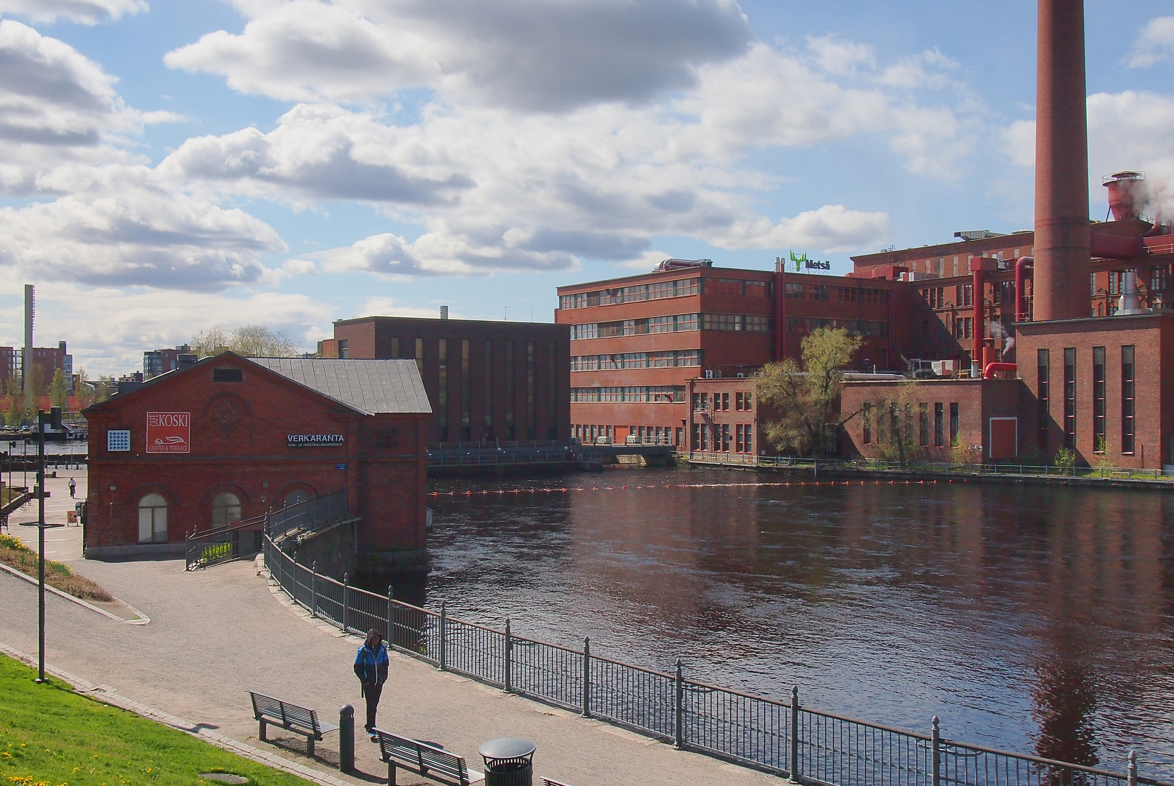 Verkaranta, Tampere, Finland